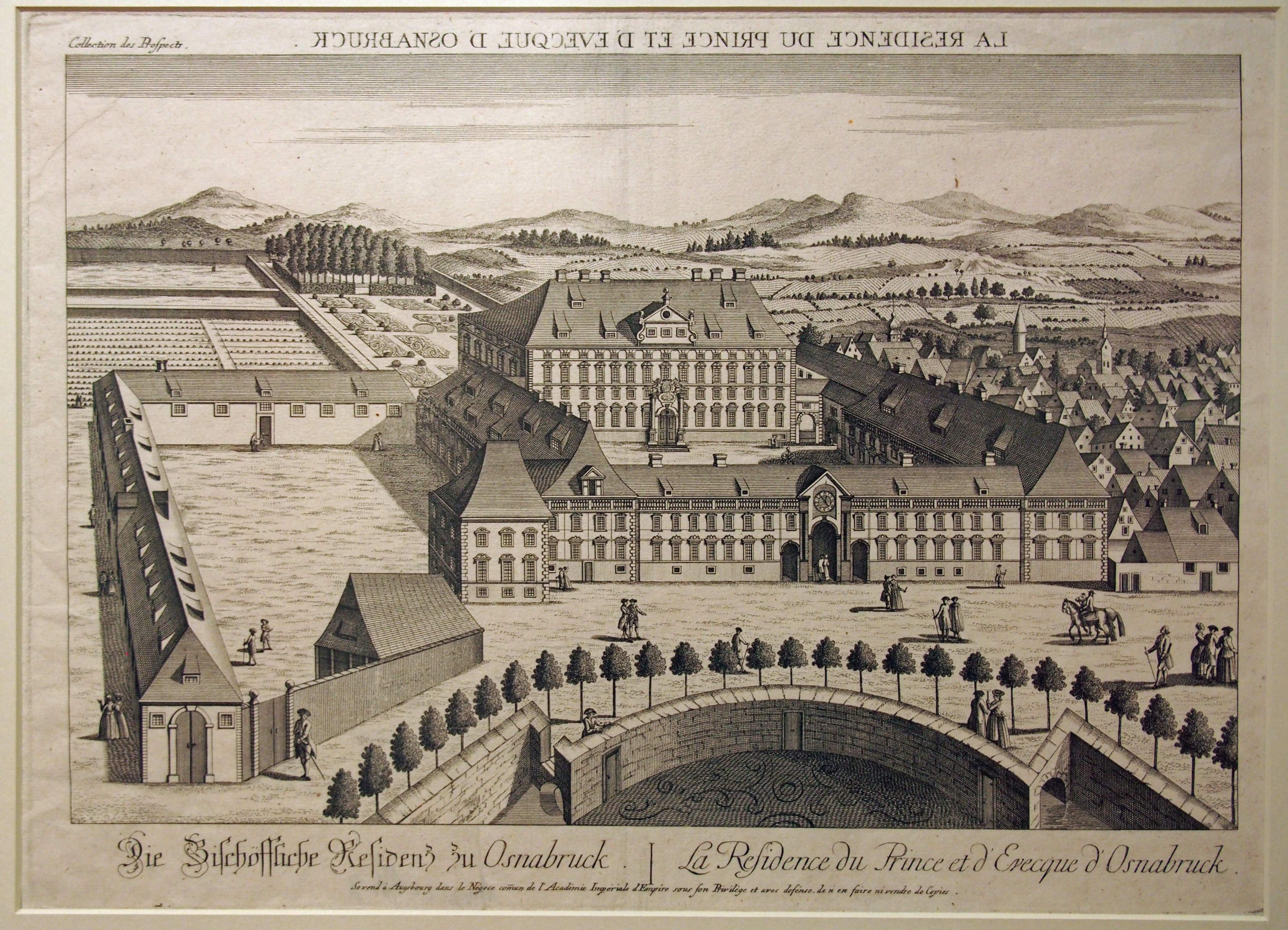 The episcopal residence in Osnabrück